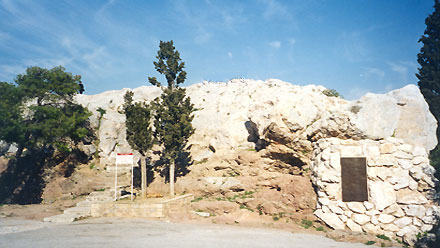 Engraved sermon of St. Paul on the Areopagus (Greek: Άρειος Πάγος) in Athens. His sermon, at the suggestion of Epicurean and Stoic philosophers who encountered him, was delivered in fall of A.D. 50,[1] or Feb/March 51.[2] The plaque cites Acts 17:22-32: So Paul, standing in the midst of the Areopagus, said: “Men of Athens, I perceive that in every way you are very religious. ...” ↑ F.F. Bruce, “Acts of the Apostles,” in International Standard Bible Encyclopedia, (1979), s.v. ↑ H. Wayne House, Chronological and Background Charts of the New Testament (Grand Rapids: Baker, 1981), 130.